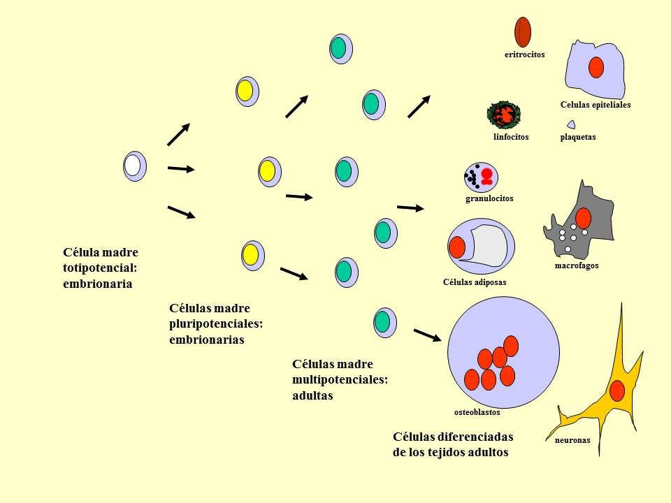 Células madre, su potencialidad y diferenciación